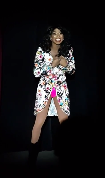 Honey Davenport performing in New York.